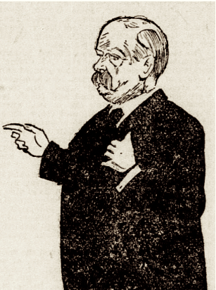 Colonel Henry Glenville Shaw (1843-1907), American Civil War veteran and journalist